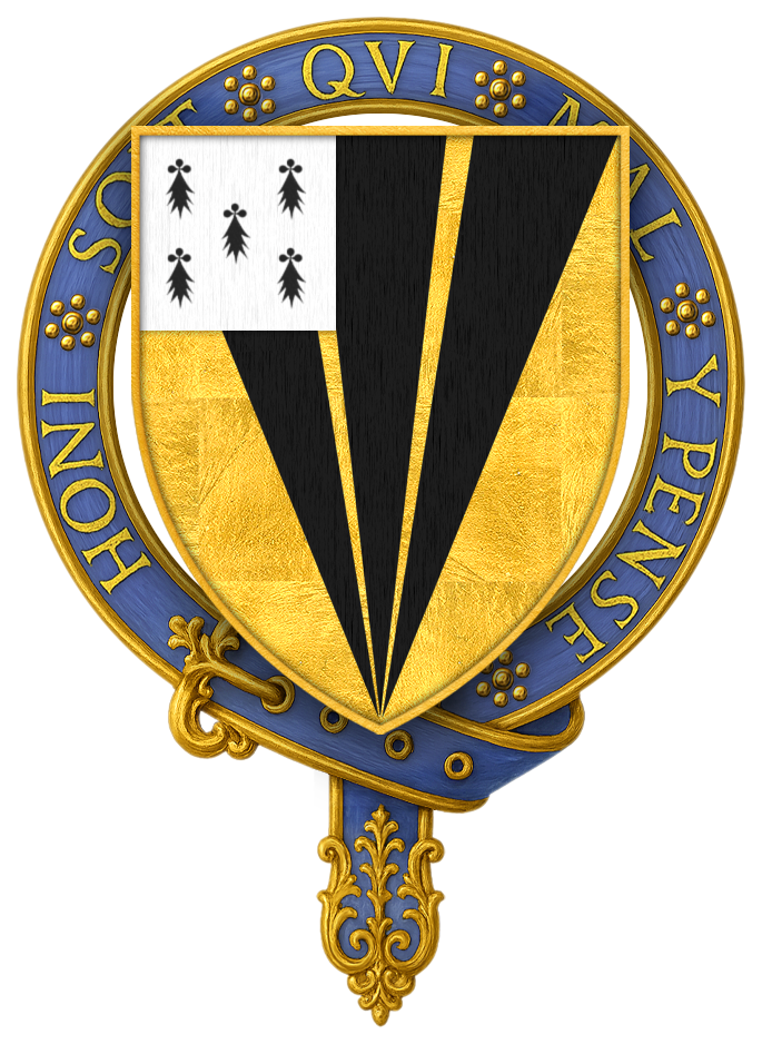 Coat of Arms of Sir Hugh de Wrottesley, KG “ Sir Hugh Wrottesley, one of the Founders… Arms: Or, three piles Sable, a canton Ermine. ” BELTZ, George Frederick, Memorials of the Order of the Garter from Its Foundation to the Present Time, London: William Pickering, 1841.